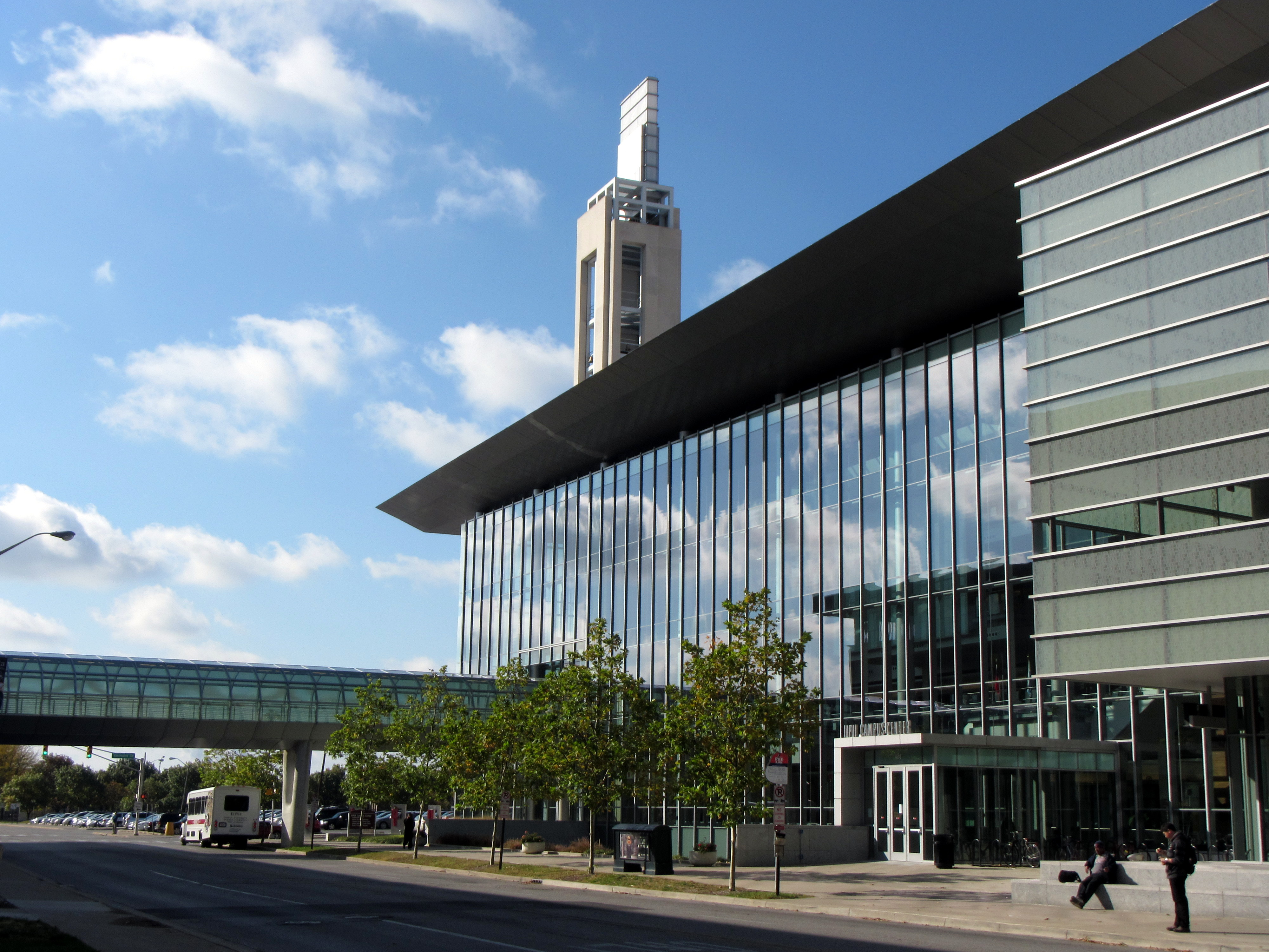 IU Simon Career Center